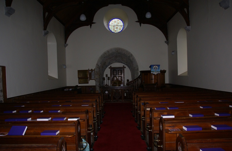 St Moluag's Cathedral, Lismore, Scotland. Interior looking west.